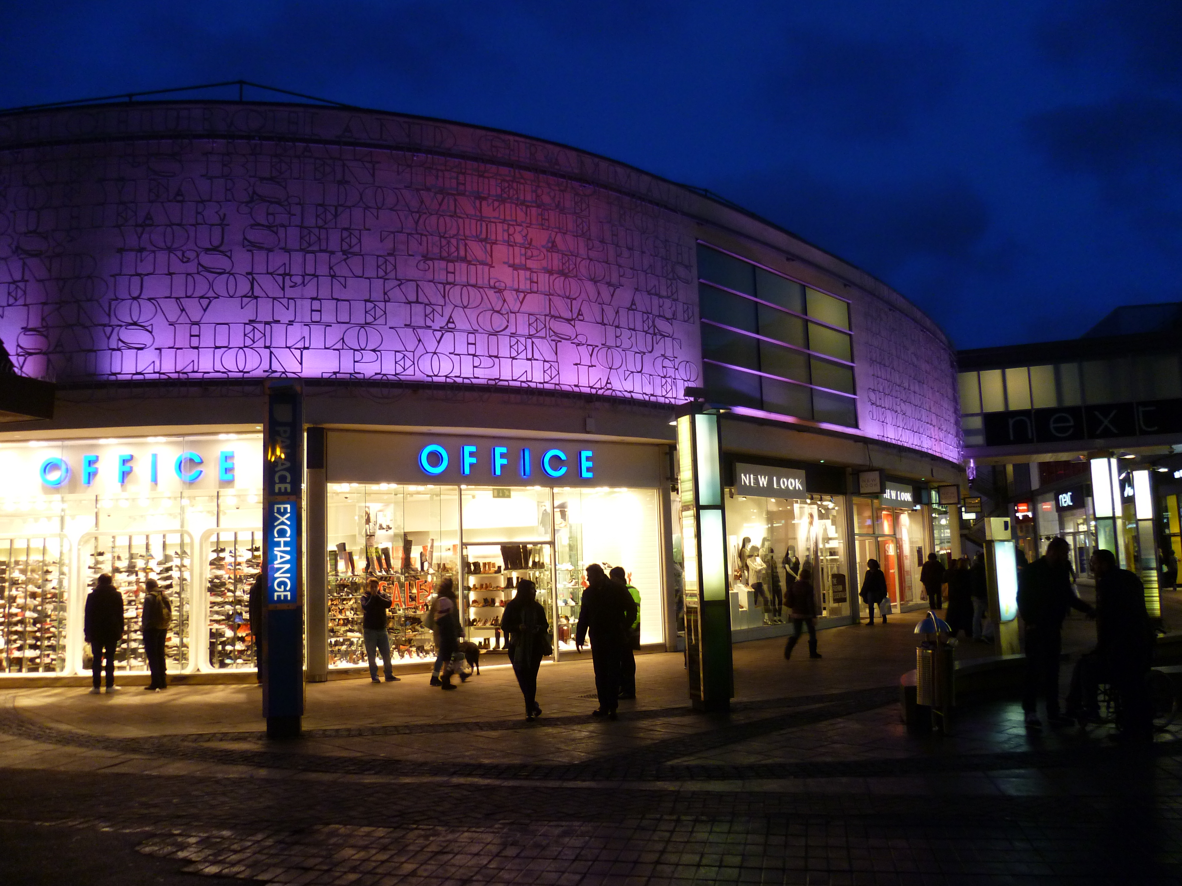 Palace Gardens shopping centre at night